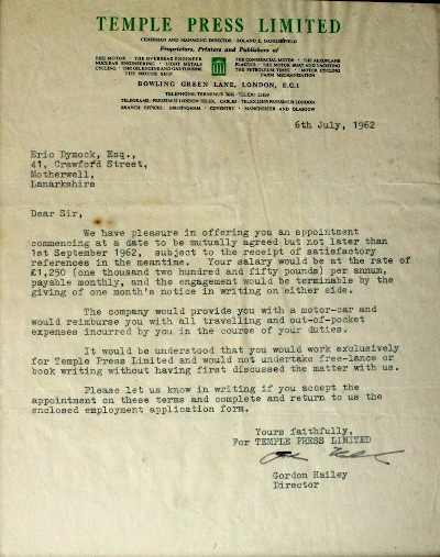 Letter on Temple Press Limited paper offering Eric Dymock a job on The Motor magazine